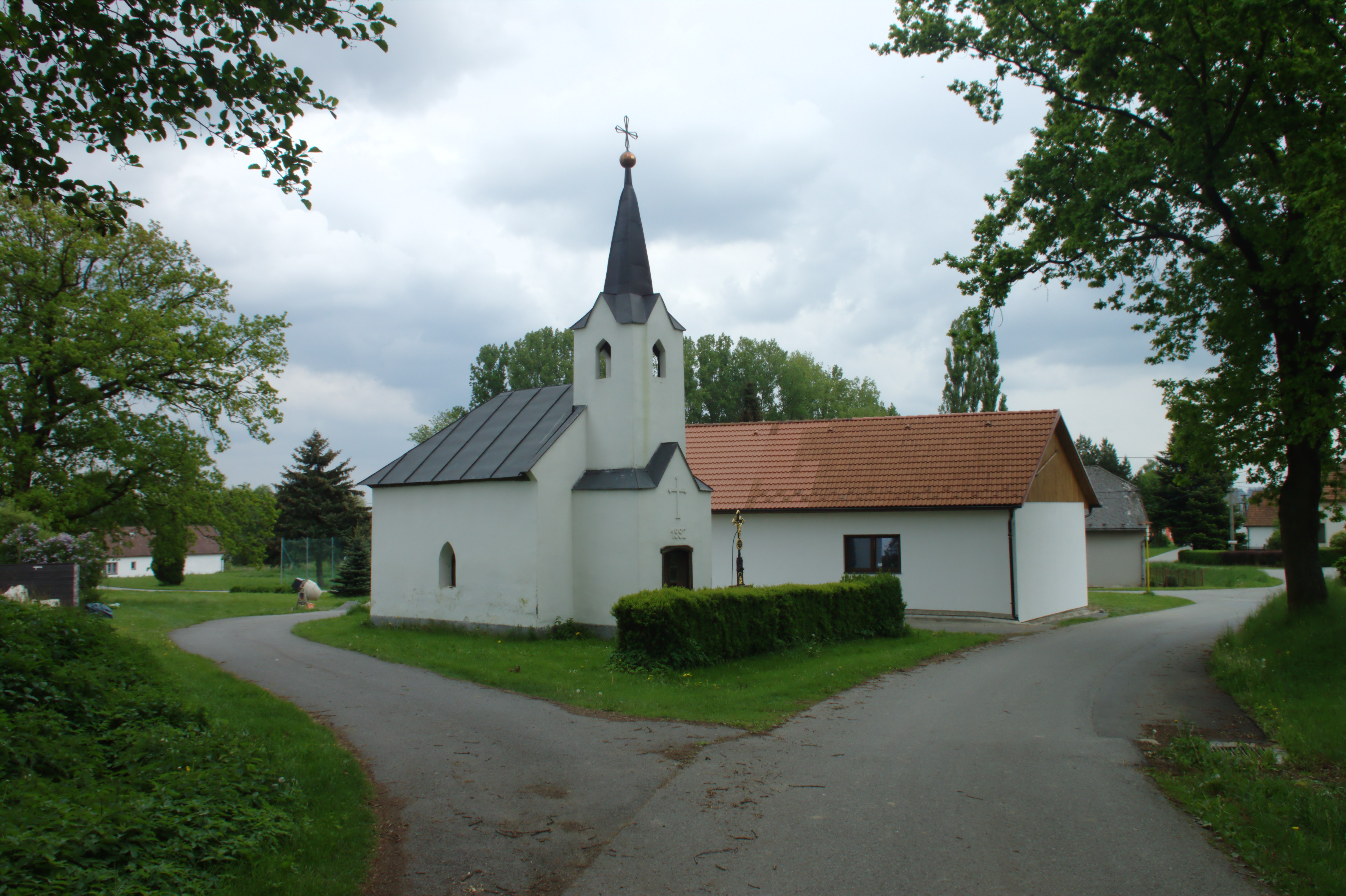 A common in Bácovice, Pelhřimov District